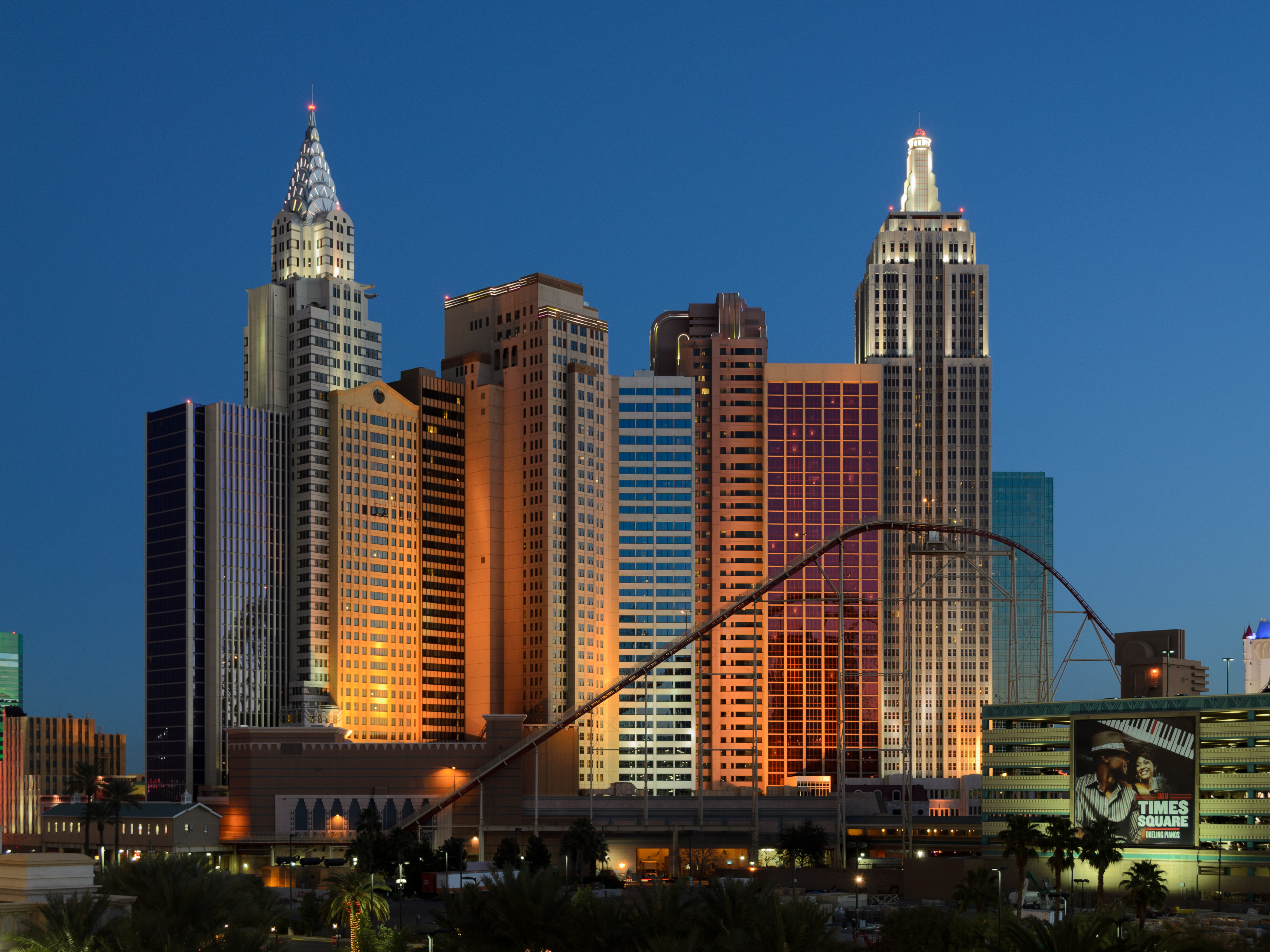 New York-New York Hotel and Casino, Las Vegas, Nevada.